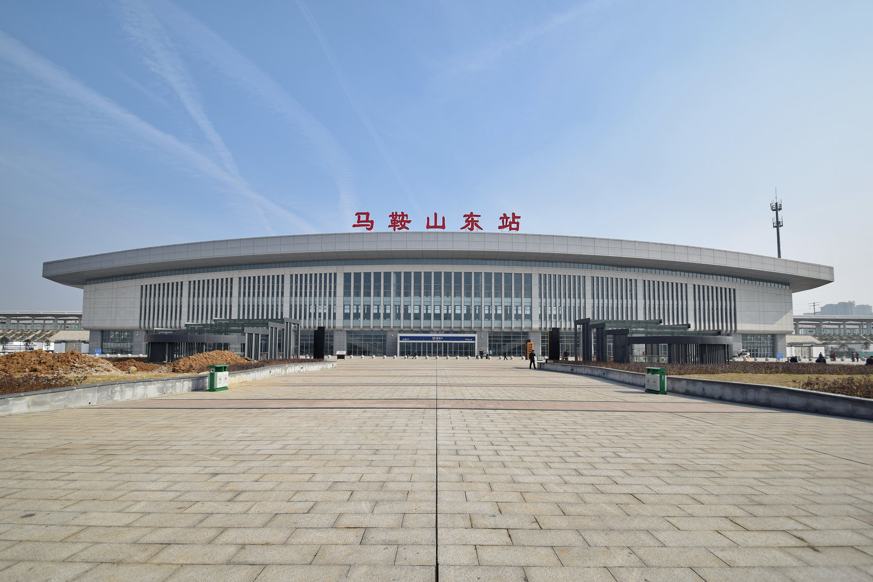 Ma'anshan Dong (East) Railway Station, Nanjing - Anqing High-speed Railway